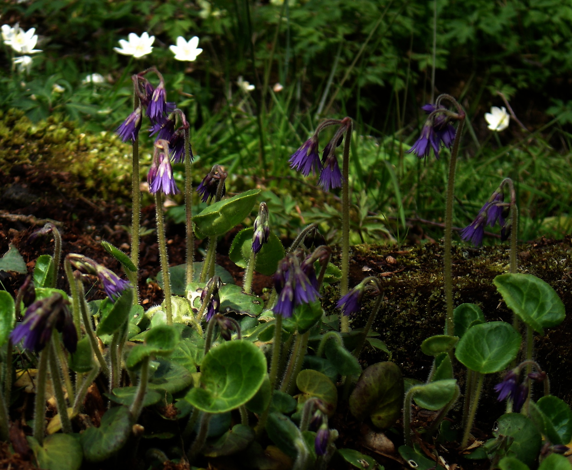 Soldanella villosa